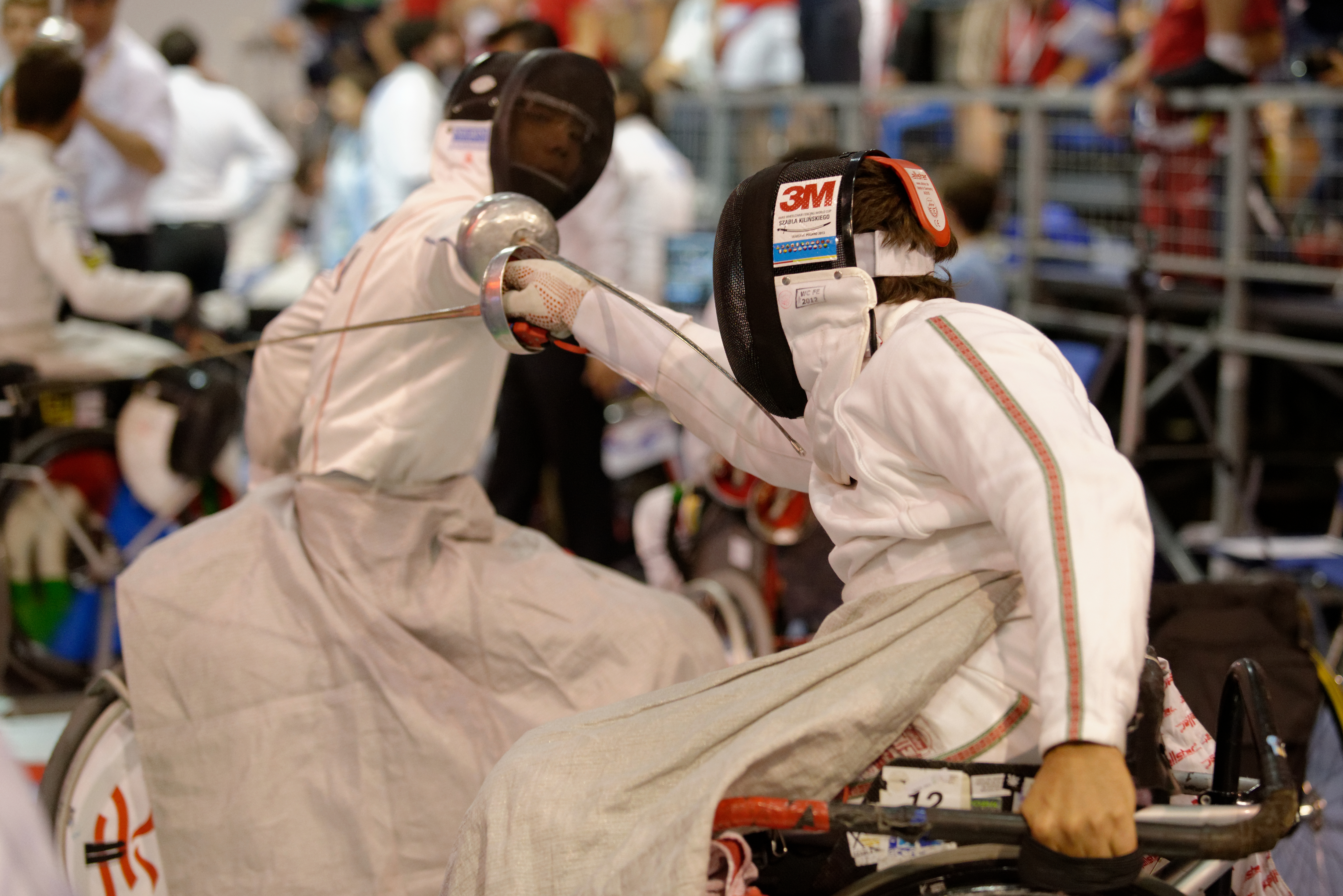 Men's épée A event in the 2013 IWAS World Wheelchair Fencing Championship at Syma Hall in Budapest on 8 August 2013.